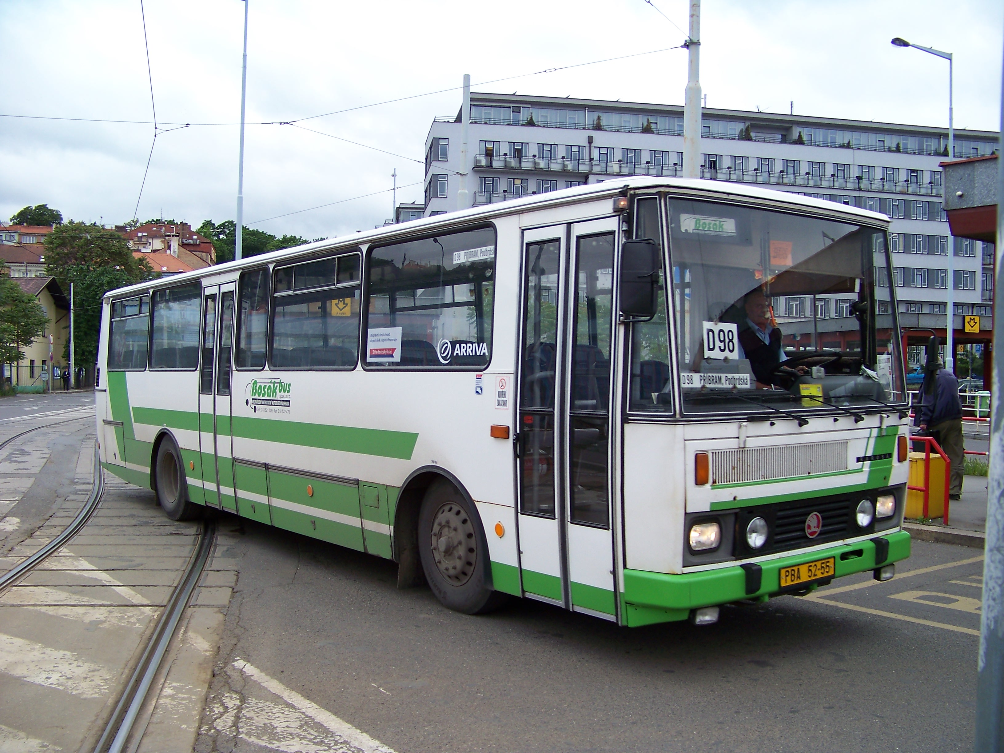 Smíchov, Prague, the Czech Republic. Na Knížecí bus station. A bus Karosa of Bosák Bus. - Google Maps - Google Earth